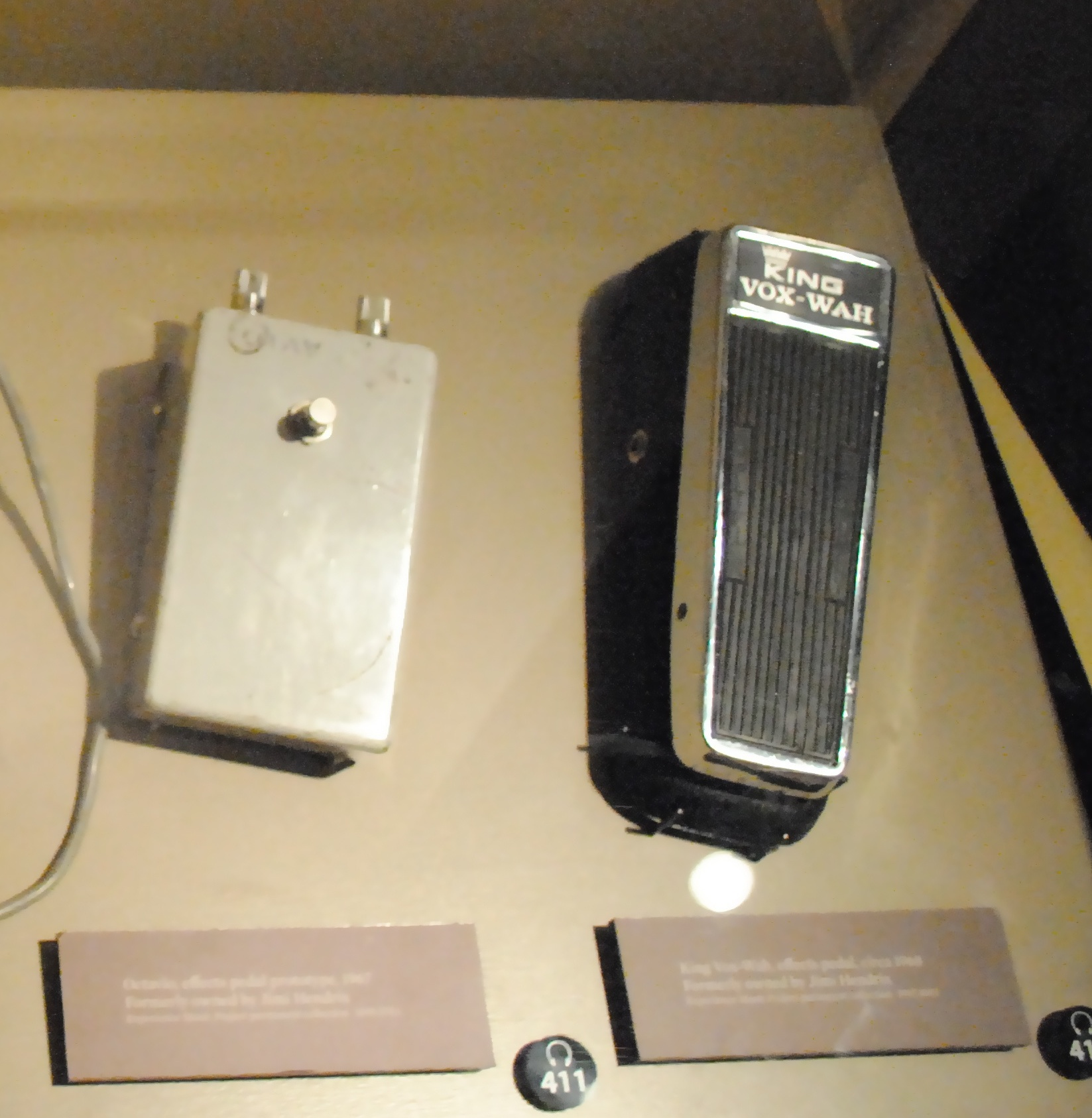 Experience Music Project/ Science Fiction Museum and Hall of Fame.